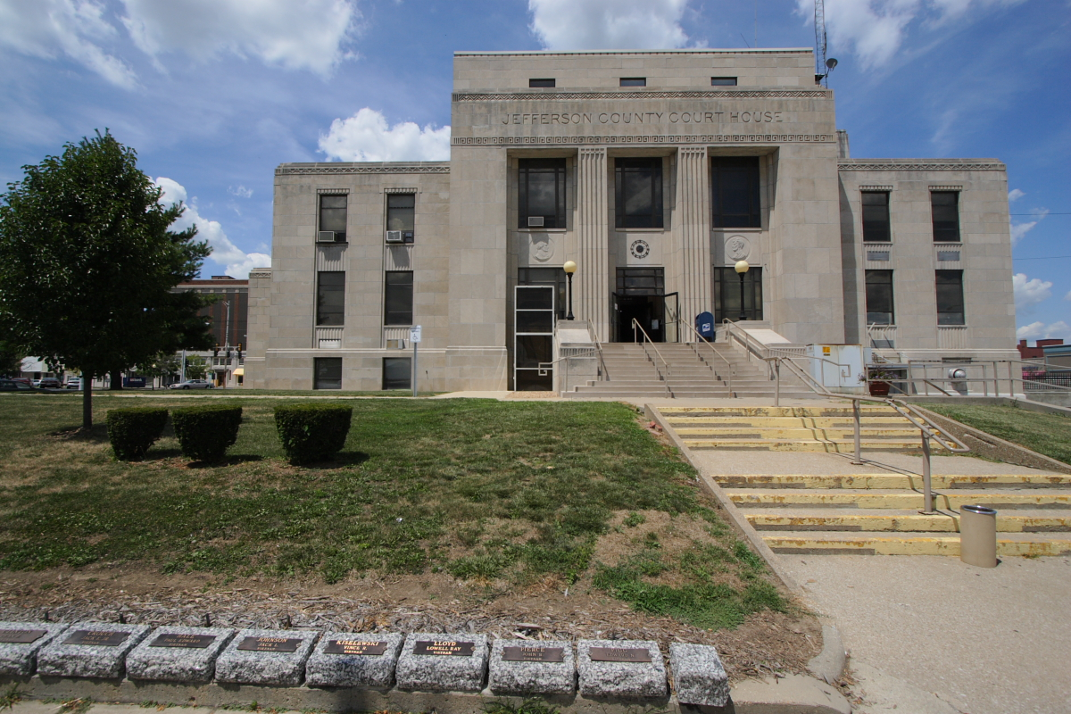 Jefferson County, Illinois Courthouse, Mount Vernon, Illinois.